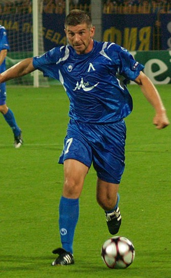 PFC Levski Sofia French footballer Cédric Bardon during the 2009-10 season UEFA Champions League home match against Debreceni VSC.